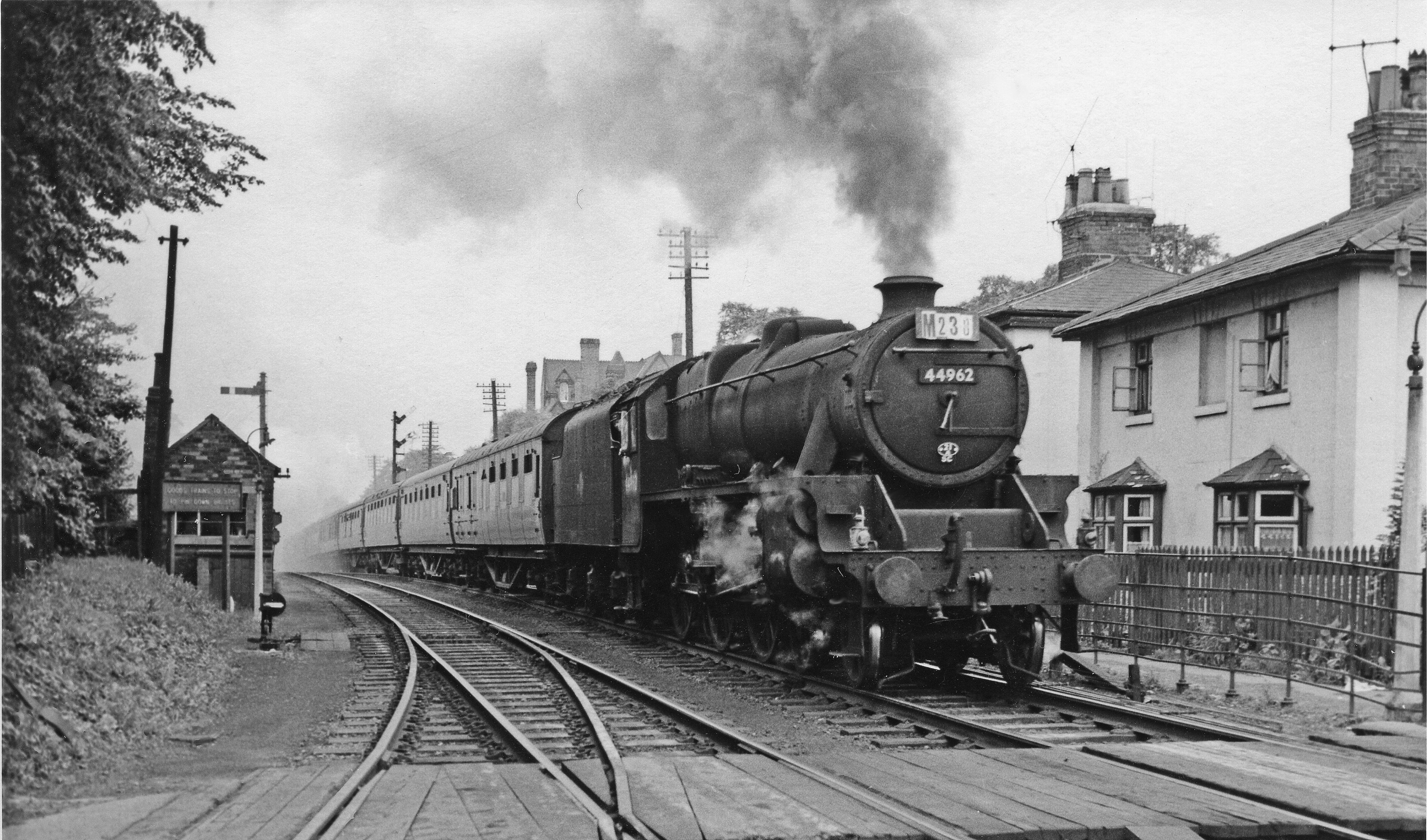 Blackwell: summit of Lickey Bank, with Up express. View SW, towards Bromsgrove, Worcester, Gloucester and Bristol. A Stanier Class 5 4-6-0 thunders past the cottages as it breasts the summit of the Lickey Bank (two miles at 1-in-37.7 from Bromsgrove), with a Paignton - Birmingham relief express. On the Down side is the Box for the shunters who had to pin down wagon brakes of descending goods trains; note the relevant notice-board. Blackwell station (closed 18/4/66) is just behind the camera.